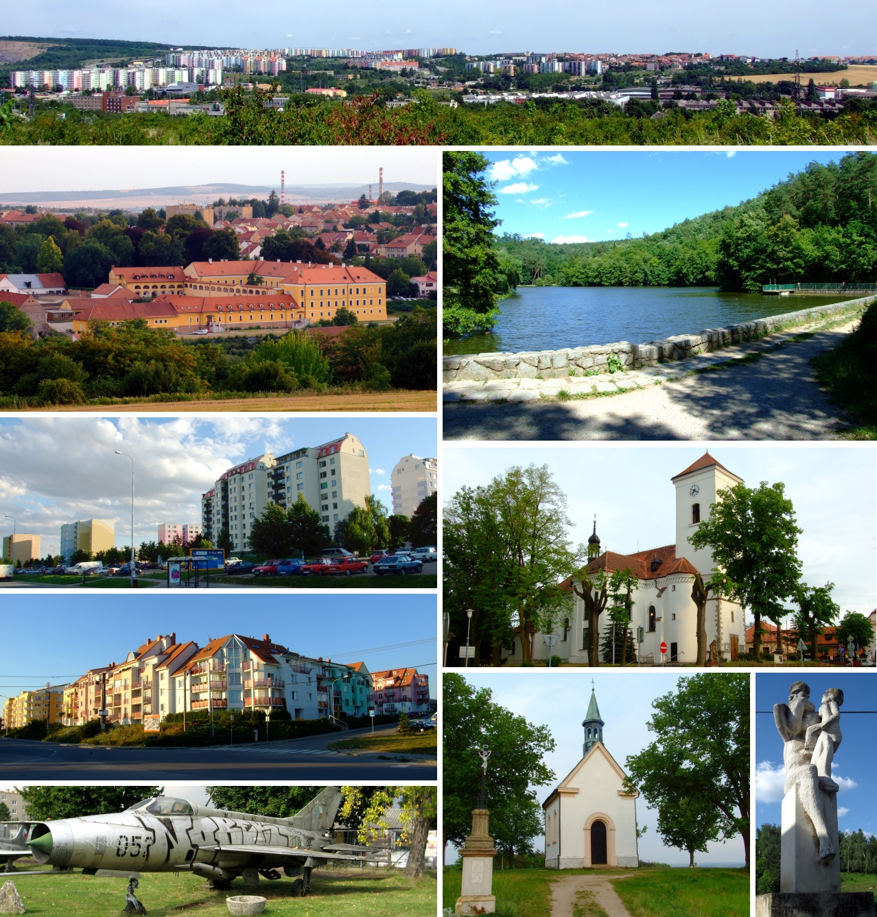 Global view on Brno-Líšeň